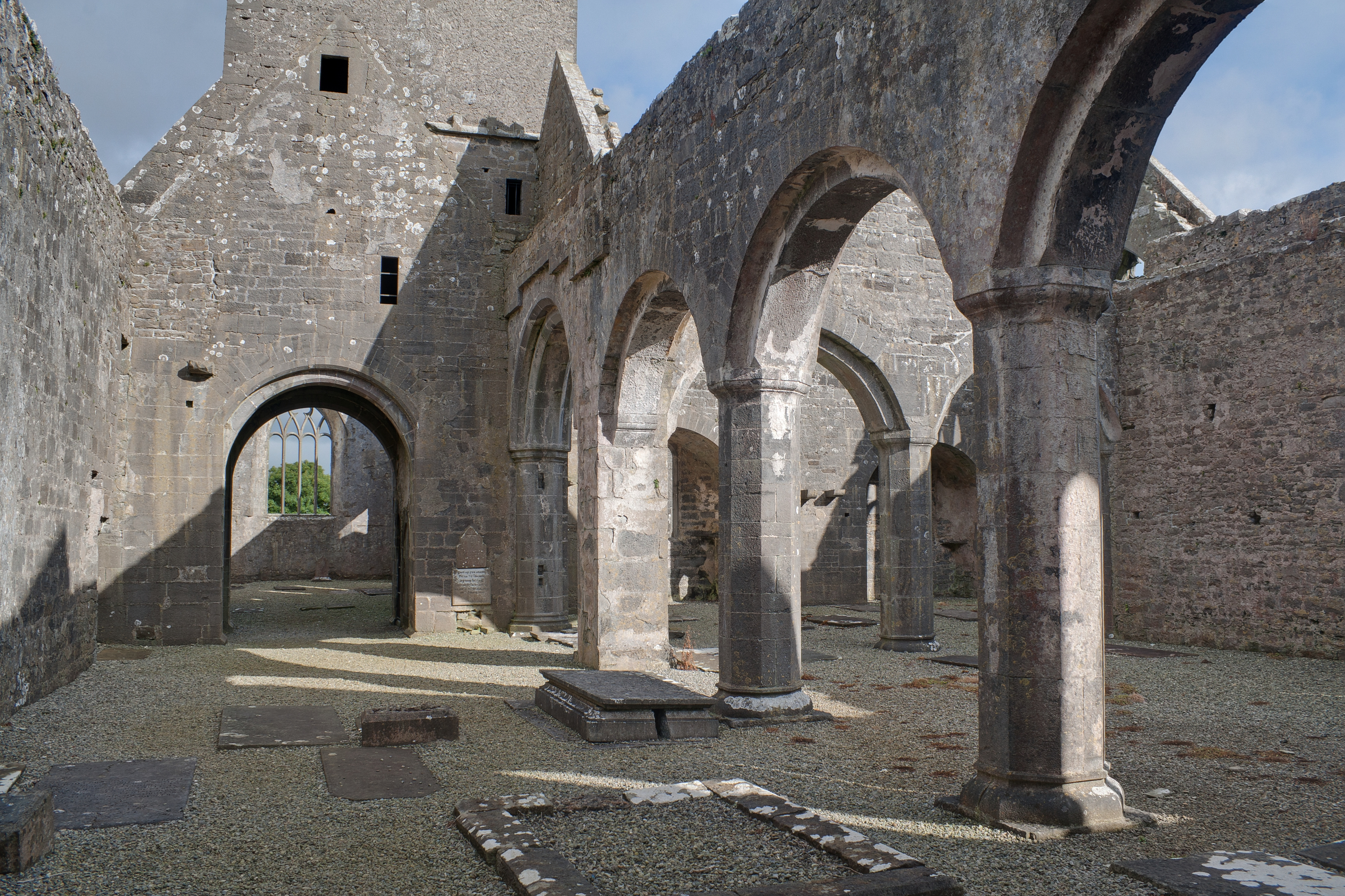 Nave of the friary, looking south-east to the tower and into the south aisle and the south transept.